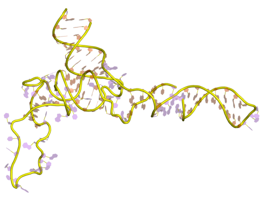 Cartoon representation of the molecular structure of protein registered with 1c2x code.